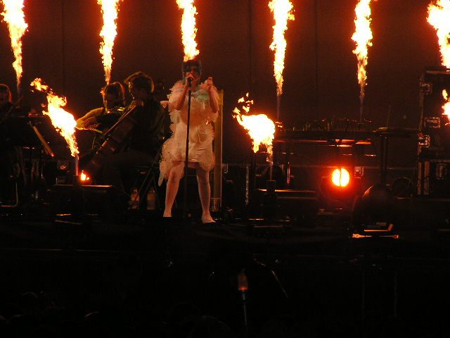 Björk performing at the Fuji Rock Festival in Naeba, Niigata, Japan